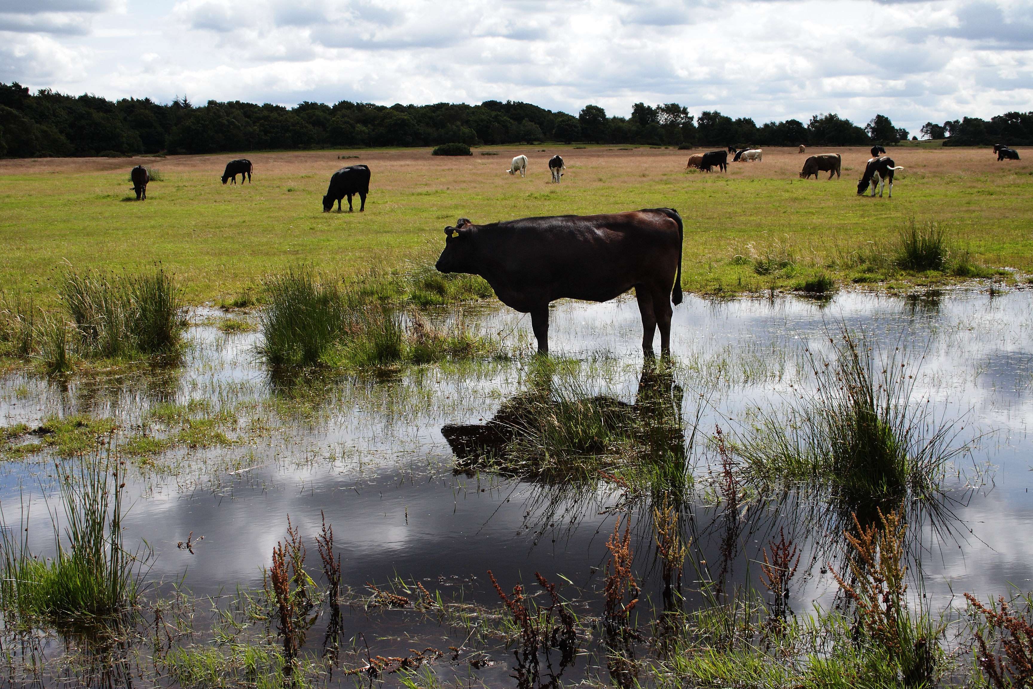 Sutton Park, cows grazing wartime fields